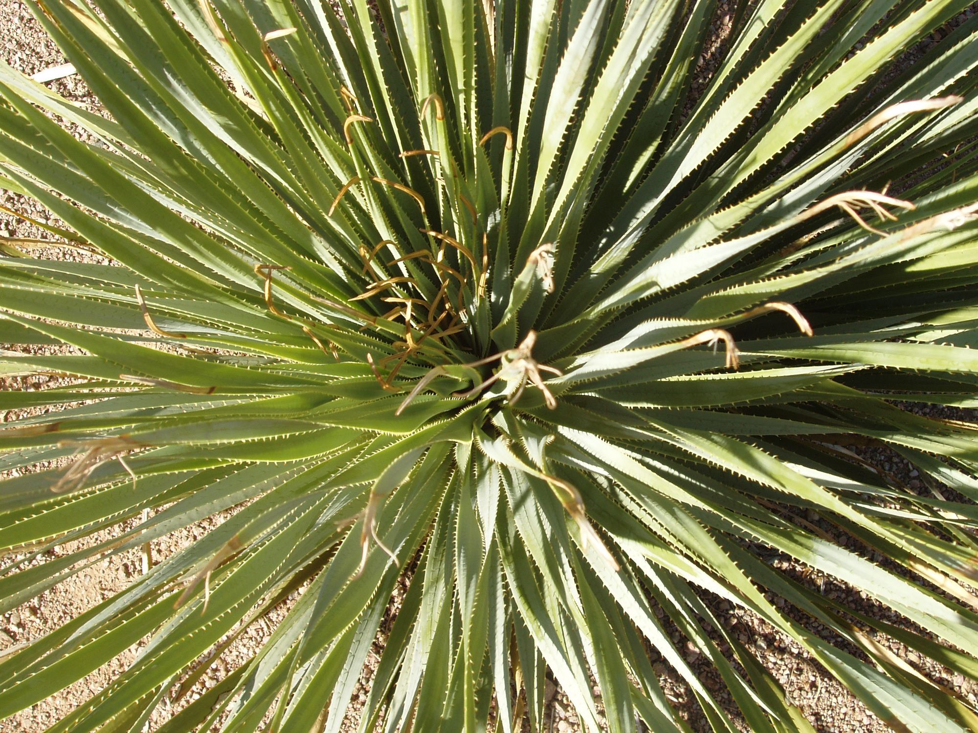 Dasylirion wheeleri, look from the top, near Phoenix, Arizona, early august 2007